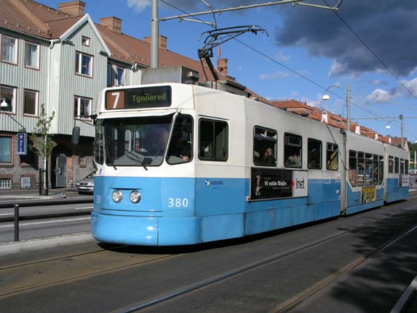 Tram 380